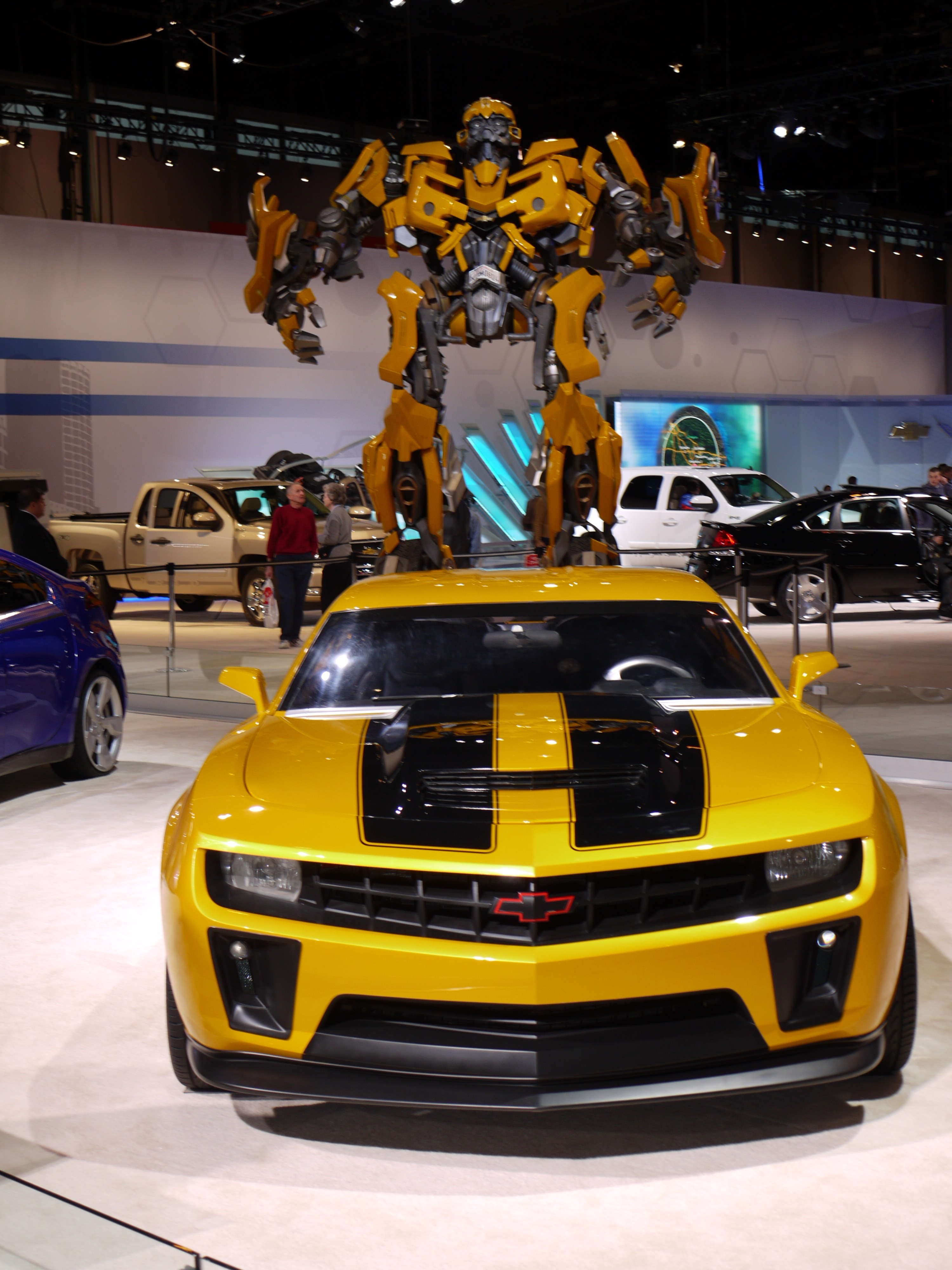 Chicago Auto Show '09